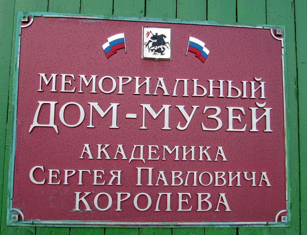 The Sergei Korolyov memorial plaque on his House (now a Museum) in Moscow.